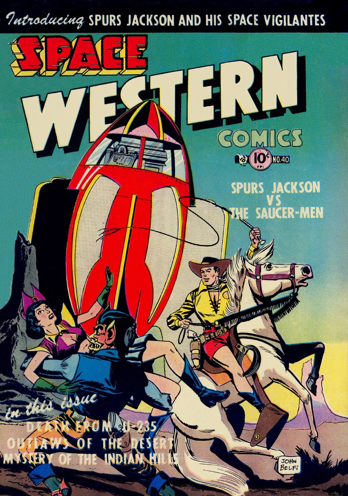 Space Western comics